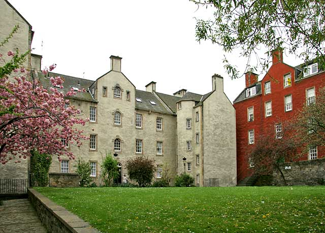 Canongate, 3, 4, 5, 6 And 6B Chessel's Court (S Block) Including St Saviour's Child Garden